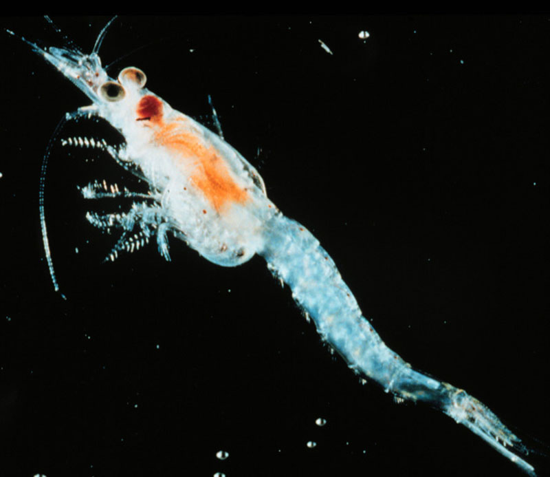 Mysis diluviana. (formerly Mysis relicta)